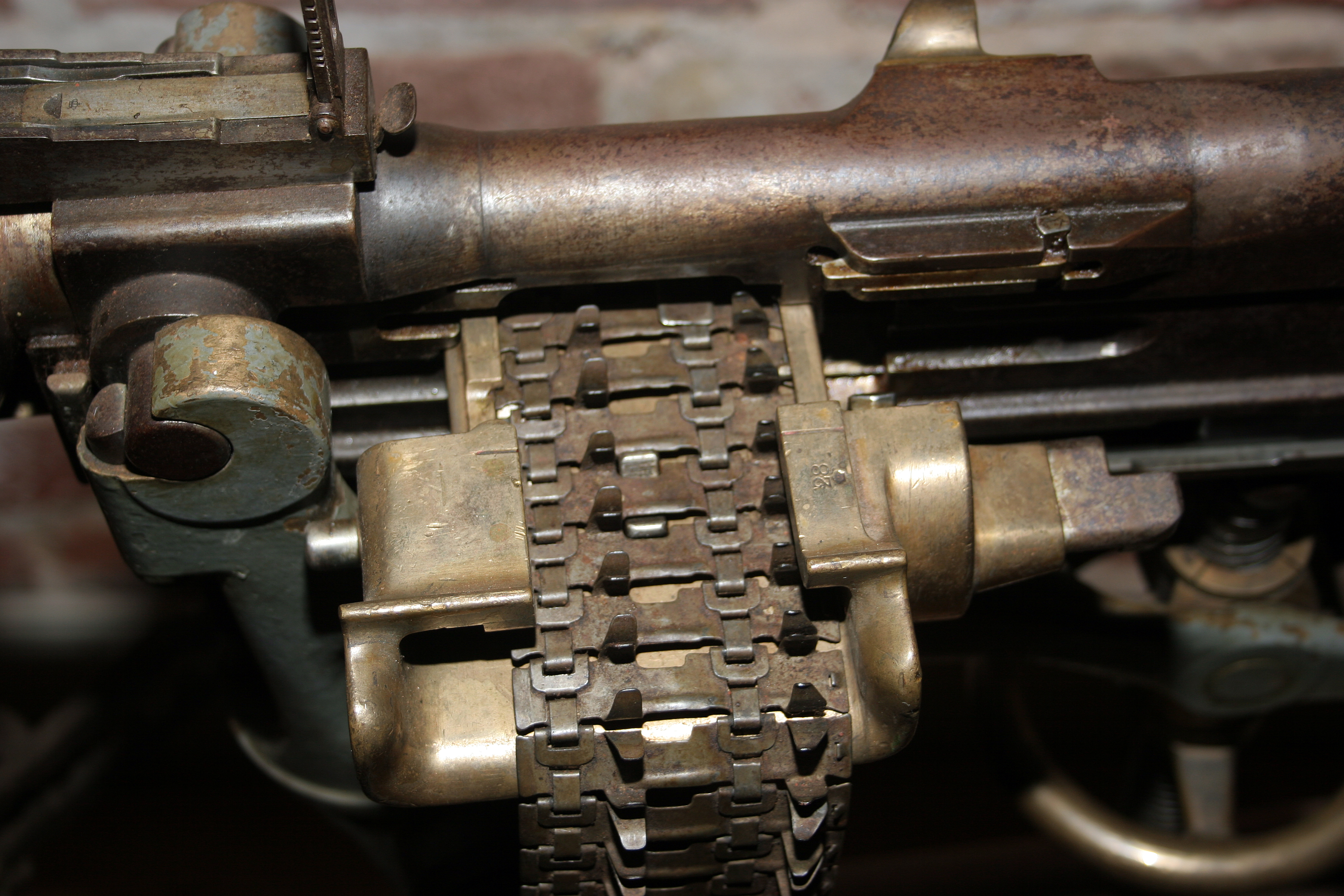 French machine gun from 1900